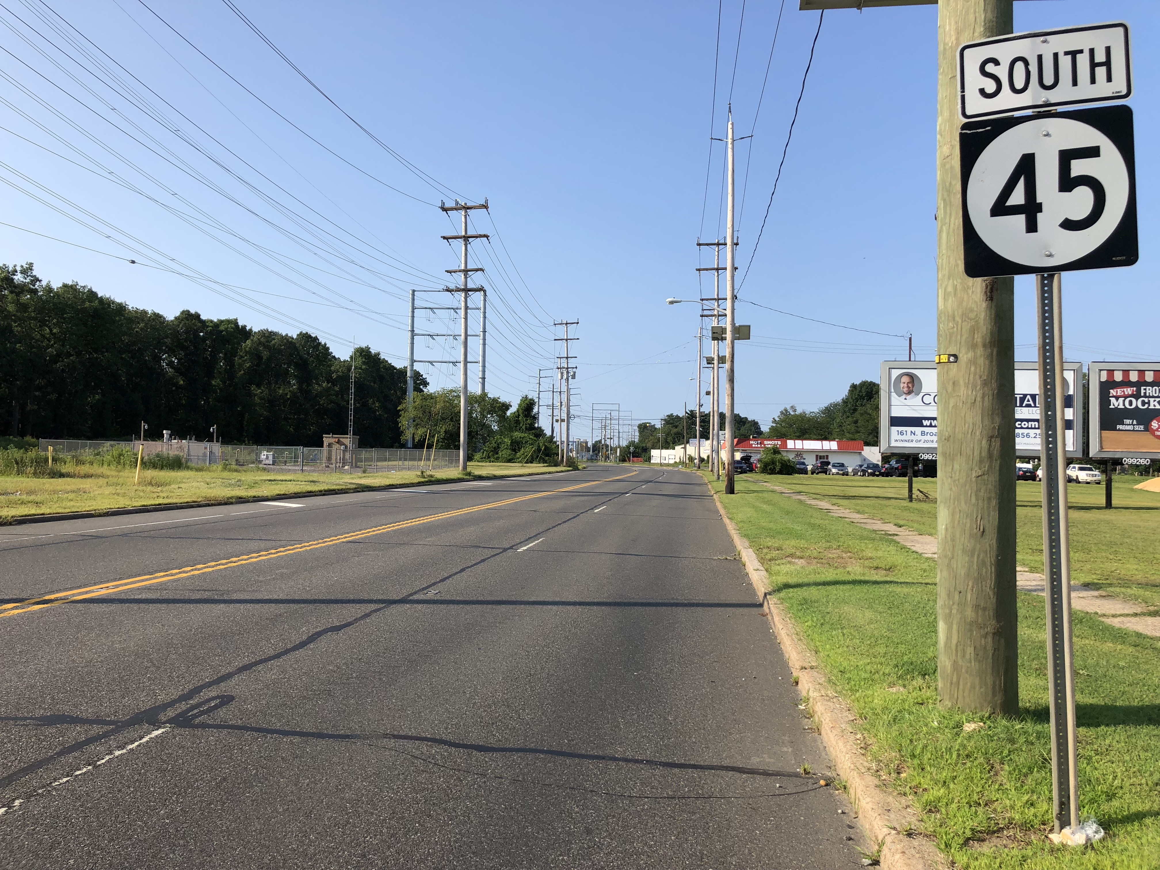 View south along New Jersey State Route 45 (Gateway Boulevard) just south of U.S. Route 130 (Crown Point Road) in Westville, Gloucester County, New Jersey